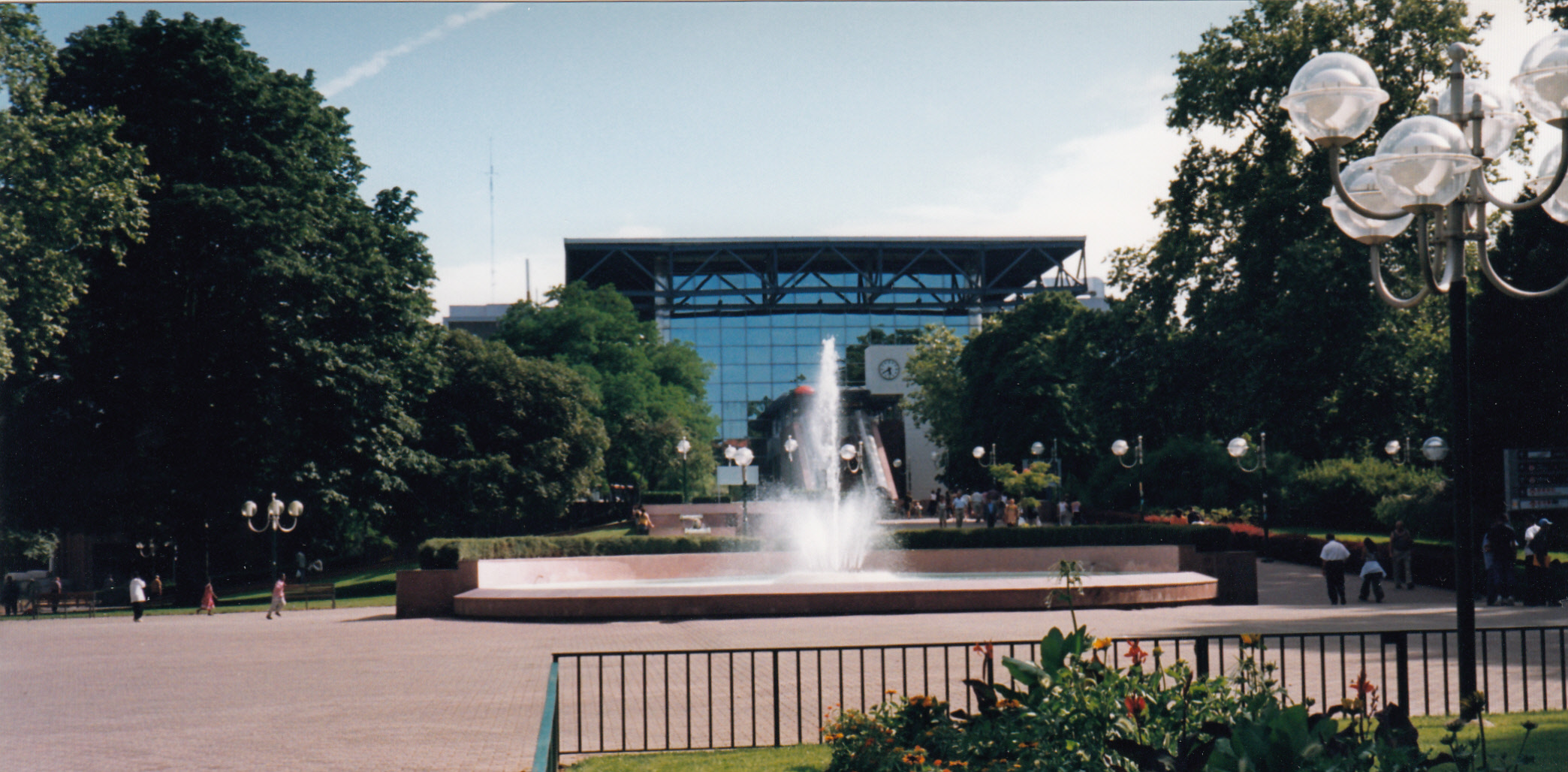 The fountain of the Carnot square, in front of the Perrache bus and railways station - Lyon, France